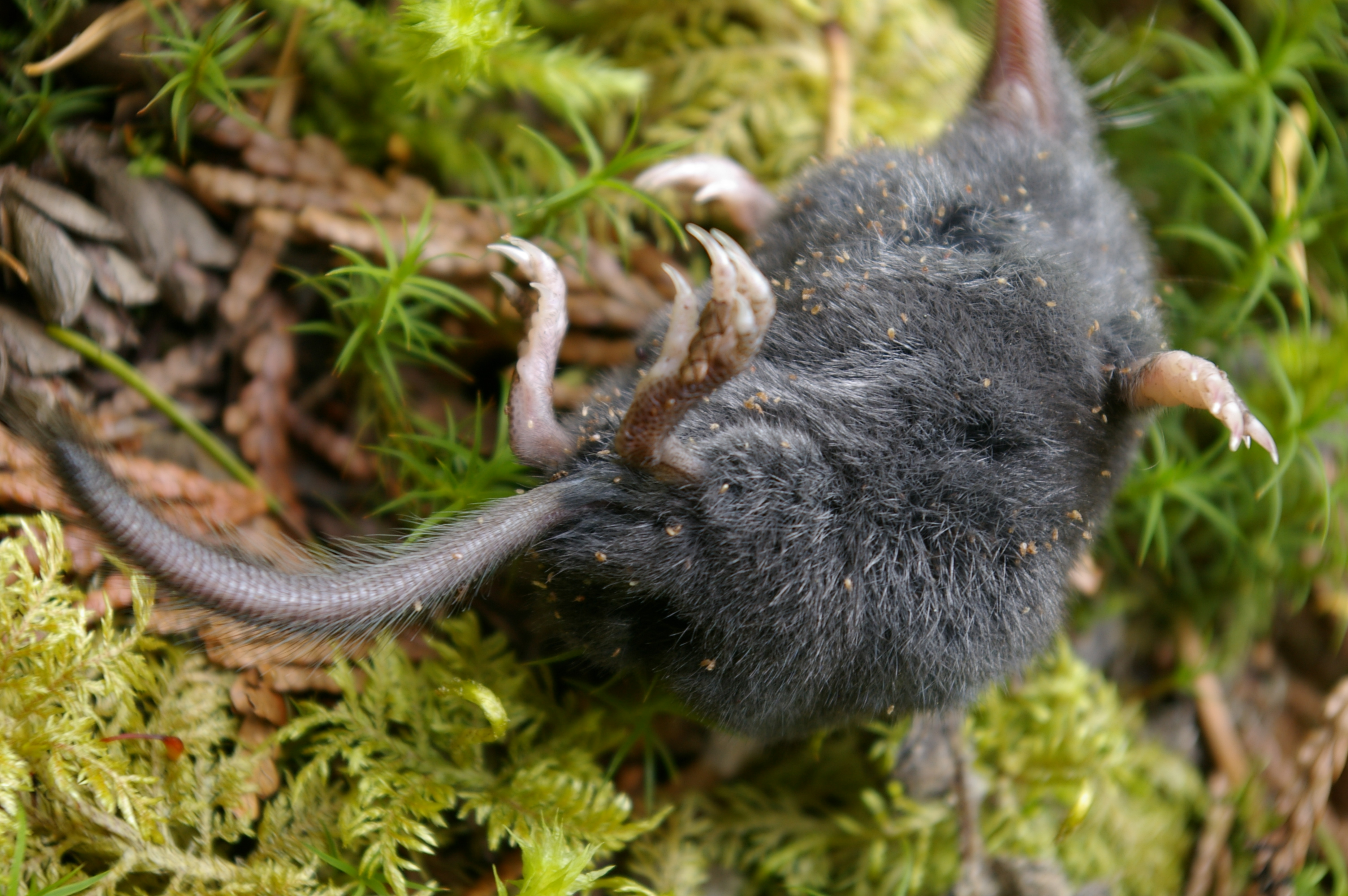 The Shrew-mole (Neurotrichus gibbsii) is the smallest North American mole. It is the only member of the genus Neurotrichus and the tribe Neutrichini. It is also known as the American Shrew Mole, but its relationship to the other shrew moles is distant. It is found in damp forested or bushy areas with deep loose soils in the western United States and southwestern British Columbia. It has dark grey fur, a long flattened snout and has a short but thick bristled tail. It is about 10 cm in length including a 3 cm long tail and weighs about 10 g. Its front paws are smaller and do not face outwards from the body as in more fossorial moles, and so are more similar to those of shrews. It has 36 teeth. This mole is often active above ground, foraging in leaf litter for earthworms, insects, snails and slugs. It is able to climb bushes. Predators include owls, hawks and mustelids. It seems to be more social than other insectivores; and may travel in loose bands (Dalquest and Orcutt 1942, Maser et al. 1981). Most breeding occurs from early March to mid-May, but even then only a few percent of specimens are in breeding condition. The length of gestation not known. Litter size varies from one to four young, newborns altricial. It is reported to have an XO system of sex determination. The shrew-mole may consume more than its own body weight in food in one day. It feeds primarily on earthworms, gastropods, centipedes, sowbugs, insects, and other invertebrates. It also eats some plant seeds, fungi, and lichens. It is sightless and detects prey with its snout. It is active throughout the year.